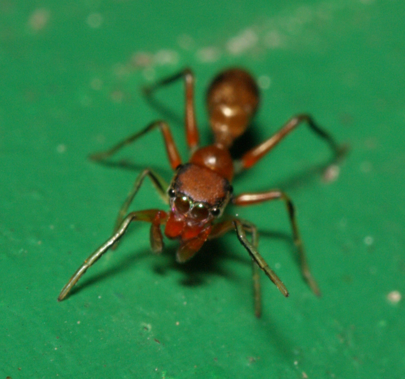 female Myrmarachne formosana from North Point, Hong Kong.